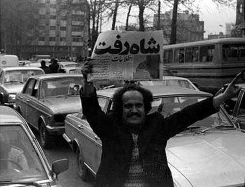 People celebrating Mohammad Reza Shah's exit of Iran